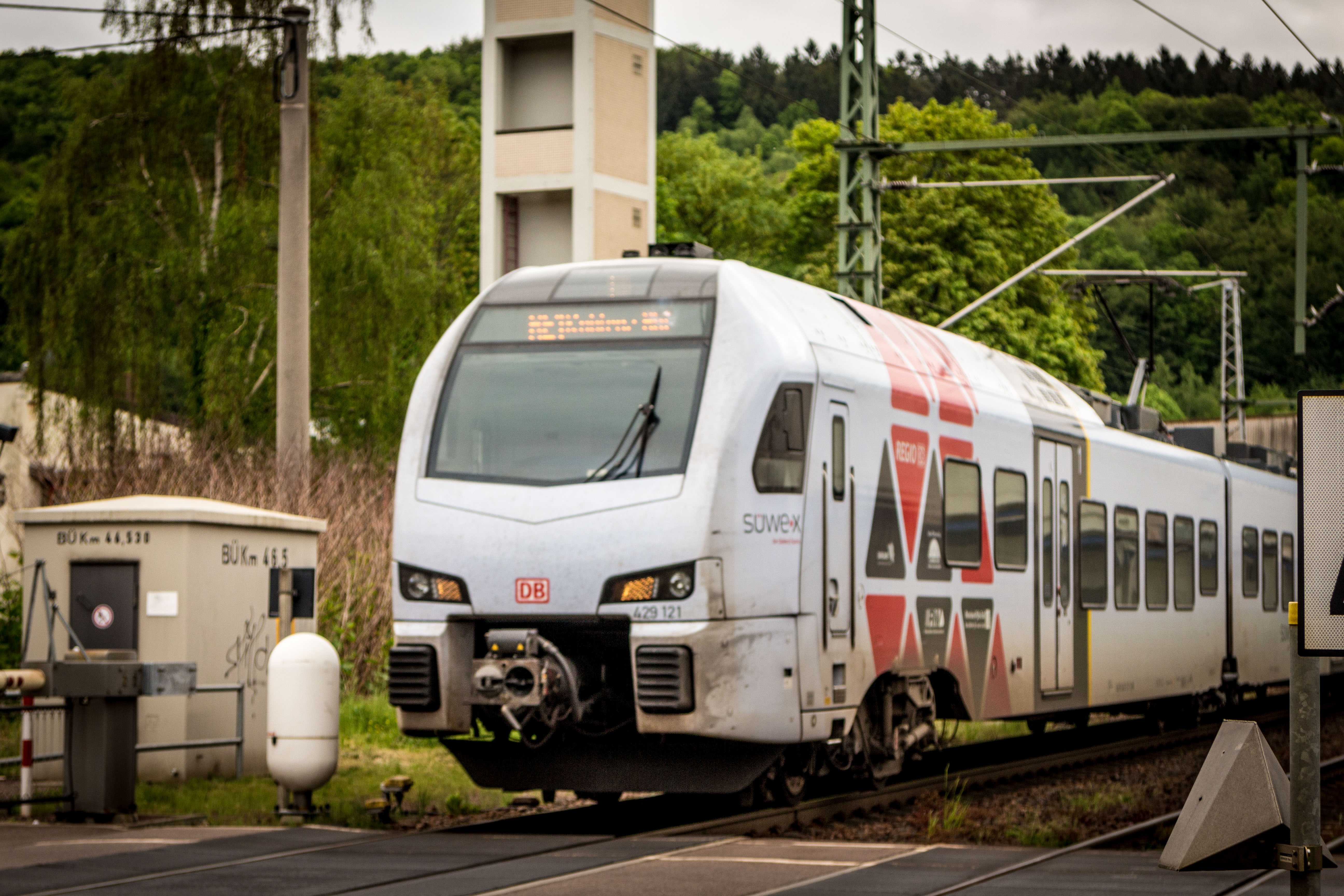 A SÜWEX train (line RE1, train type 429) at Mettlach train statin, Saarland, Germany